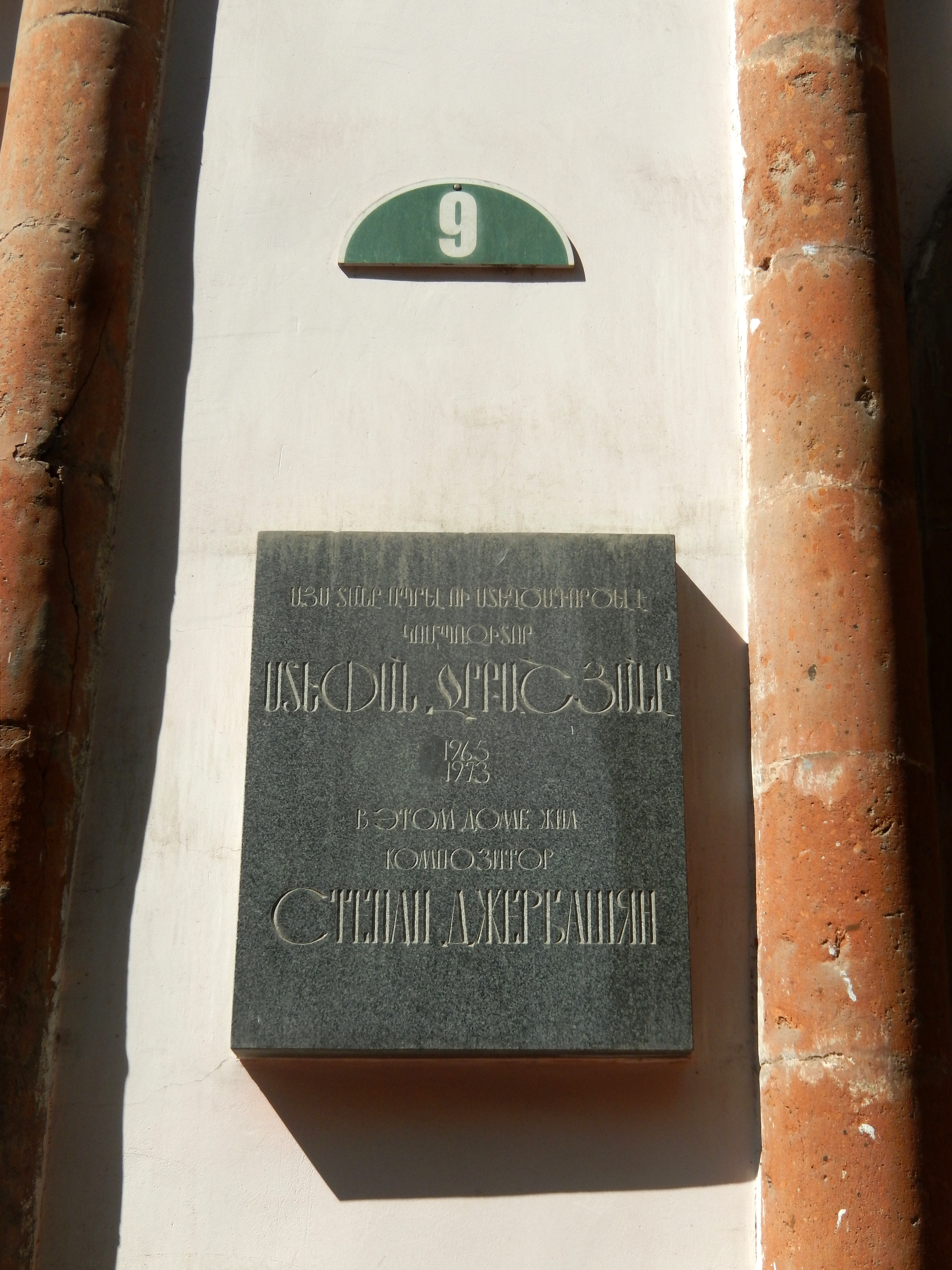 Plaques in Yerevan